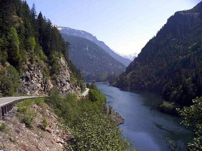 North Cascades Highway (Washington State Route 20) through the North Cascades National Park. The body of water in this photo is Gorge Lake, a reservoir created by Gorge Dam on the Skagit River.